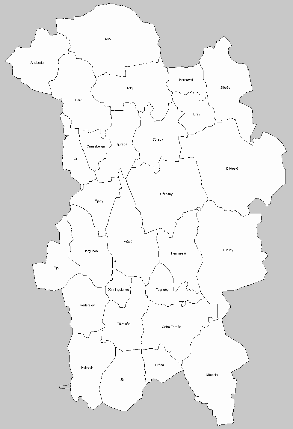 Parishes in Växjö municipality